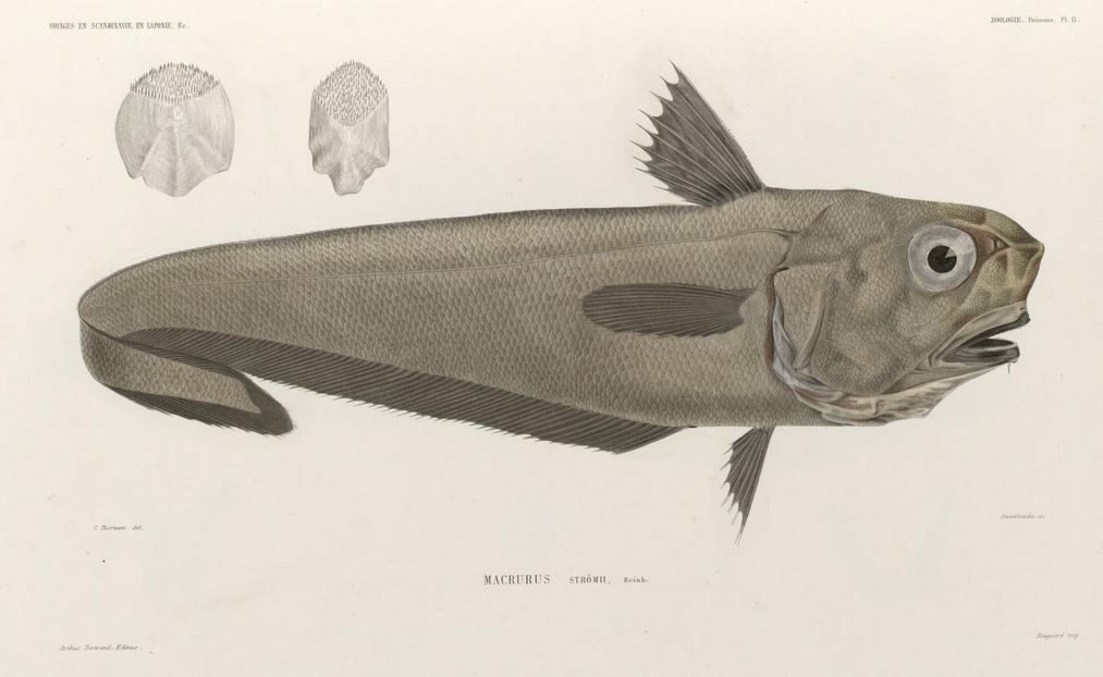 Coryphaenoides rupestris = Syn Macrurus strömii